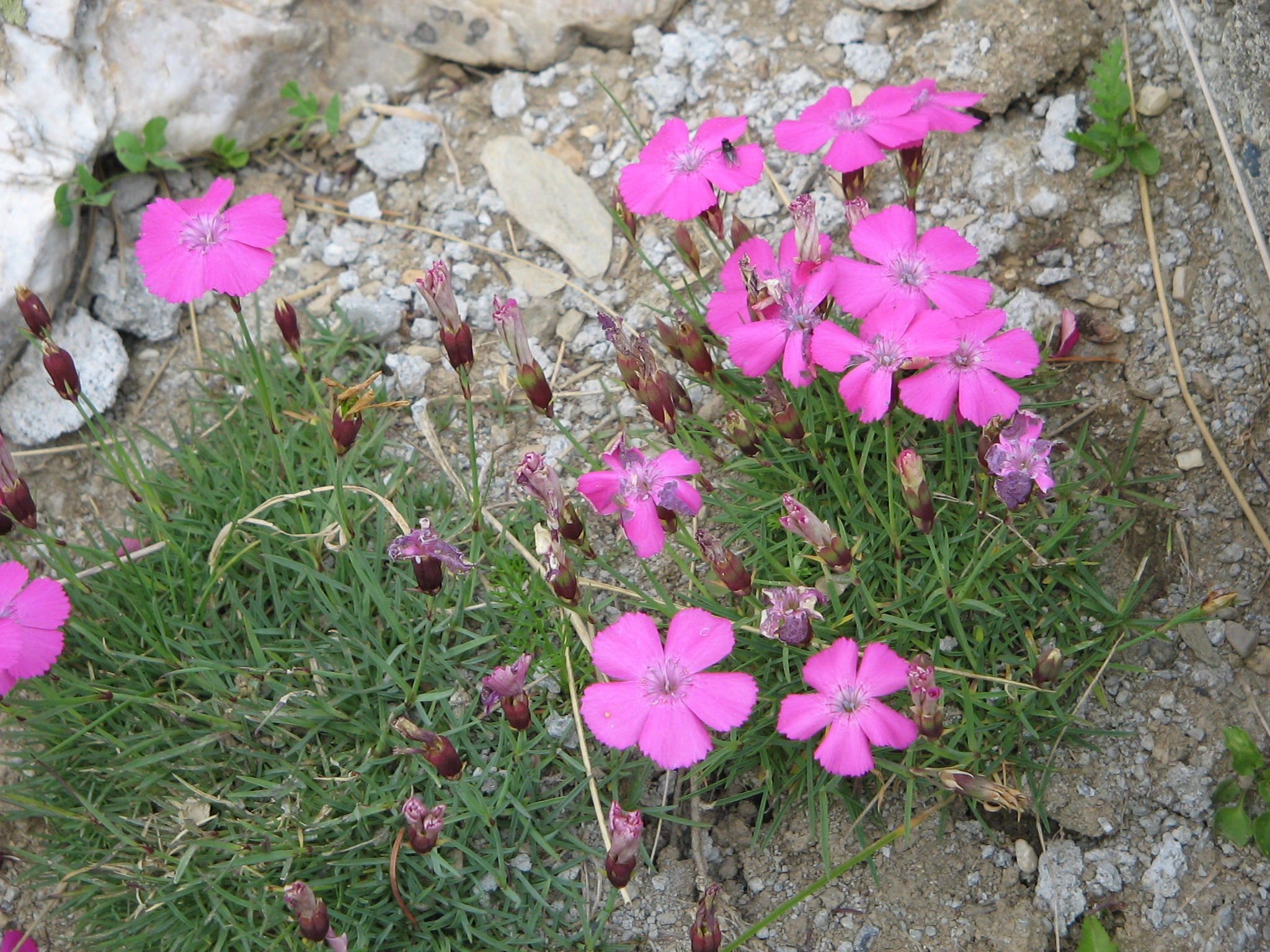 Dianthus pavonius